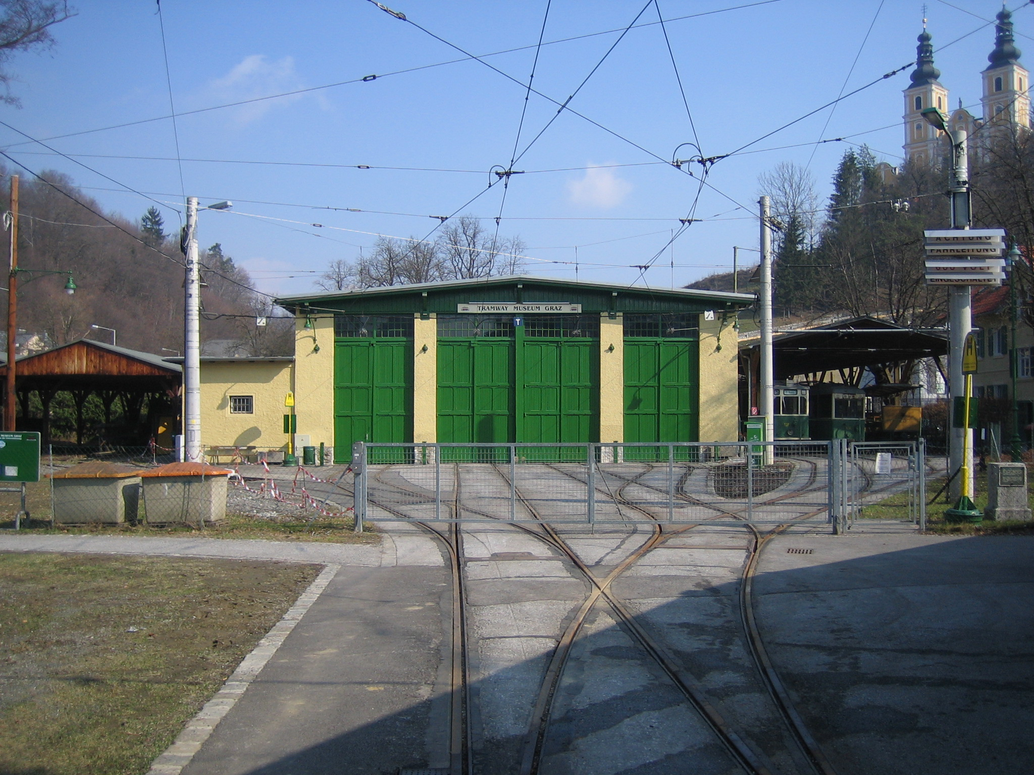 Front of the Graz Tramway Museum